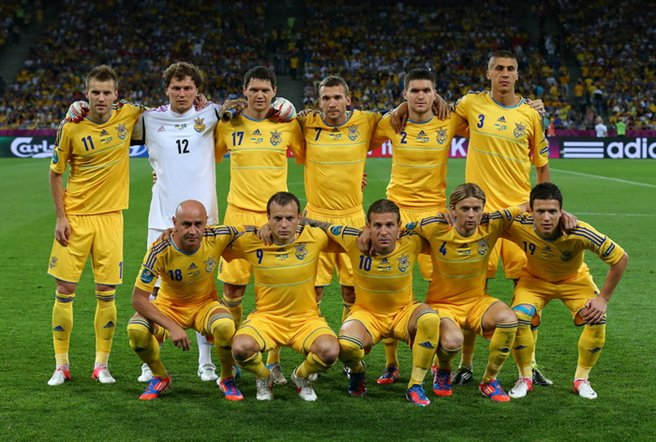 UEFA Euro 2012 match between Ukraine and Sweden that took place in Kiev. Final result was 2:1 (2xShevchenko - Ibrahimović)